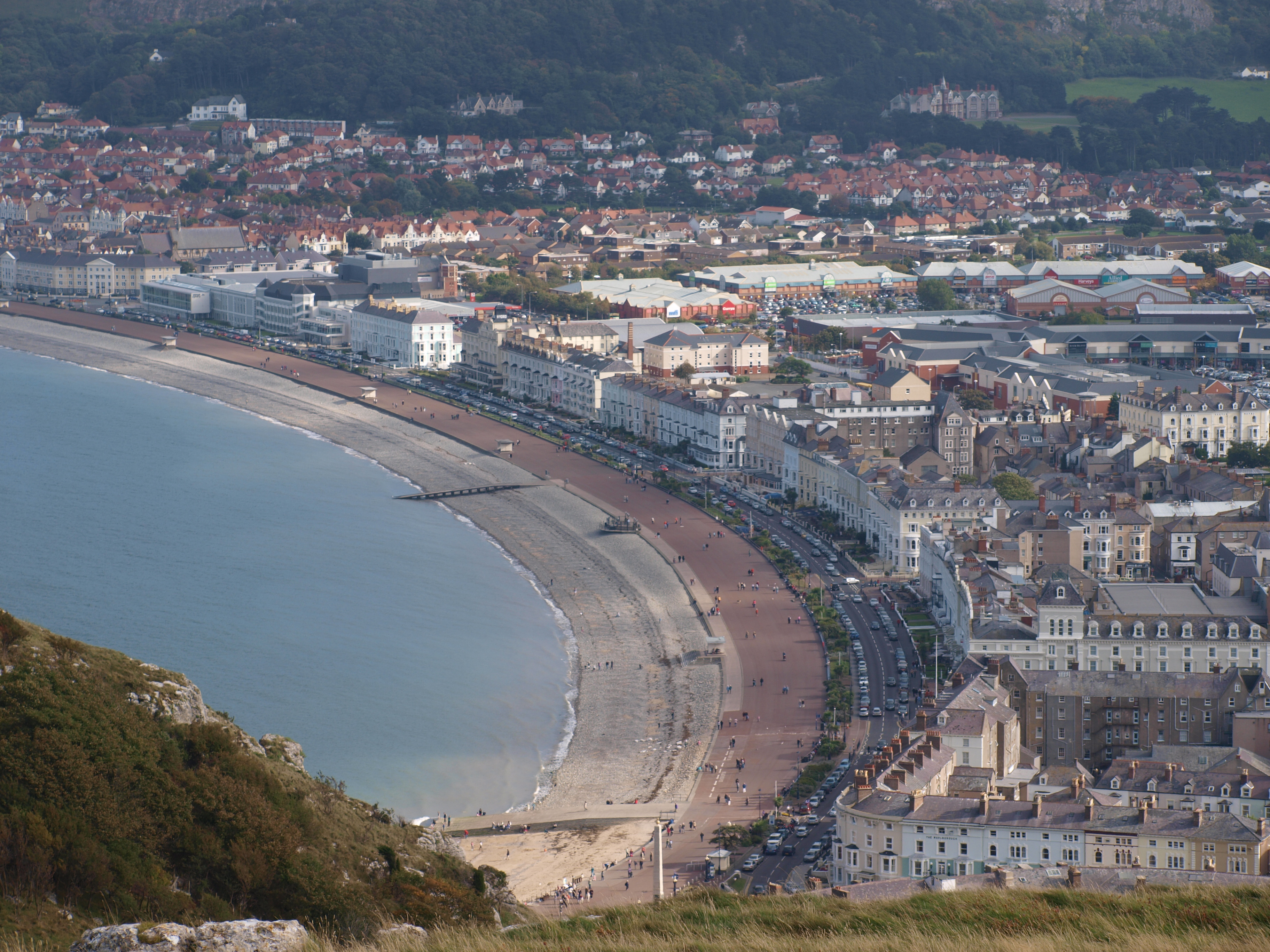 View from the Great Orme